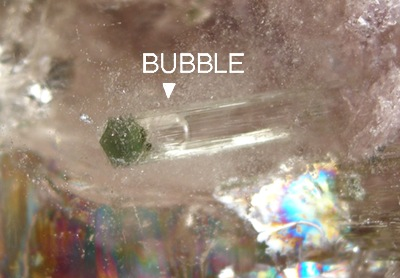 Quartz Locality: Araçuaí, Jequitinhonha valley, Minas Gerais, Southeast Region, Brazil (Locality at ) Size: cabinet, 9.9 x 5.0 x 4.4 cm Moving Water bubble inside Quartz ps. Tourmaline, within Quartz OK...where to start? This specimen features a forest of tourmaline inside, except the tourms are now hollowed cores, except for their tips having been replaced by quartz . Why the green tips remain, I cannot say. In one of those hollowed-out tourmalines that is now quartz, a VERY evident water bubble serenely goes back and forth. its amazing to watch, inside its cage. The replaced tourmaline and others, empty of bubbles, all float within the core of this large polished quartz crystal. This is one of those rare polished inclusion pieces that I just fall in love with despite not generally liking polished pieces. When the inclusion is rare enough to warrant it, or spectacular enough like here, I'll take it!